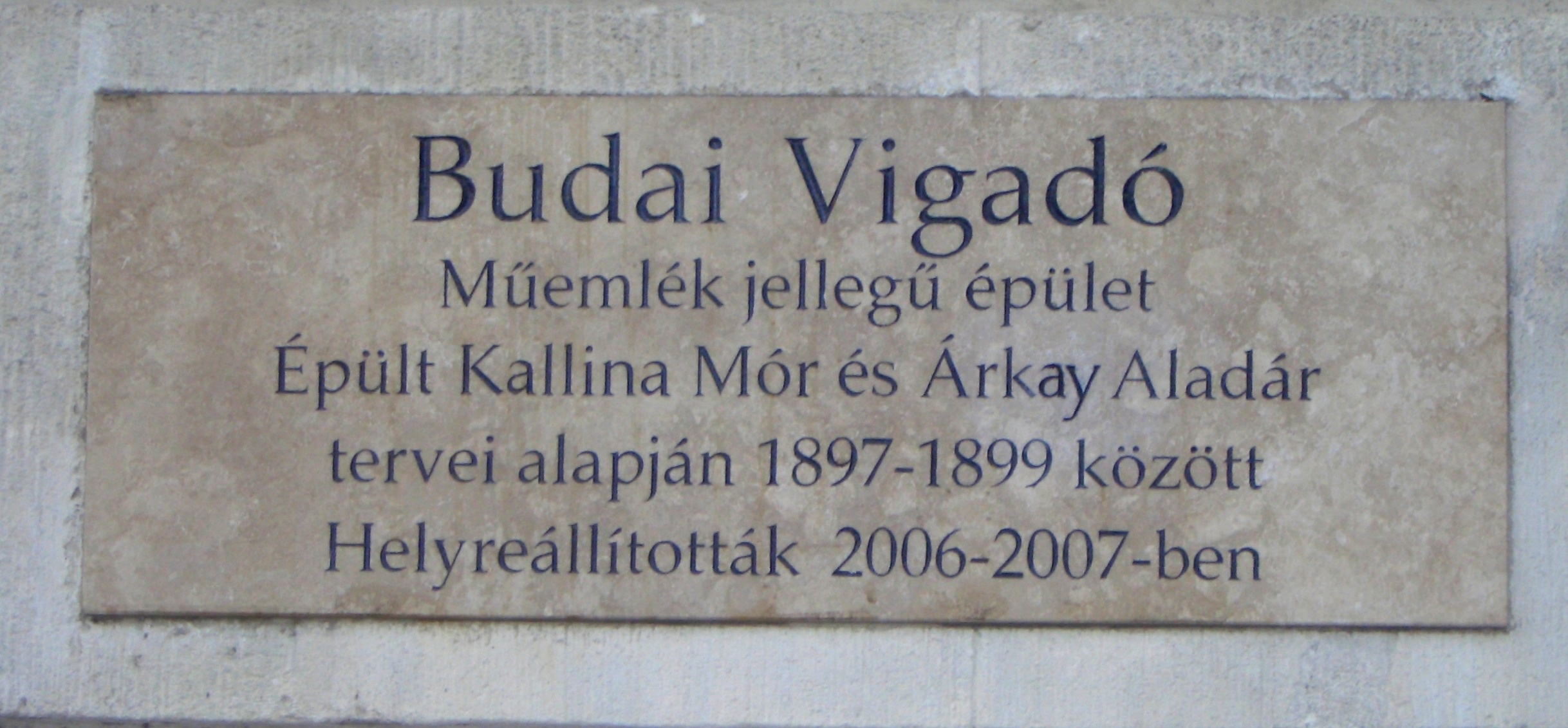 Palace of the Budai Vigadó in Budapest, 01. district, on Corvin square. Built 1897 to 1899, designed by architects Mór Kallina and Aladár Árkay, in eclectic and art nouveau style. Memorial plaque of the architects placed on the main facade.